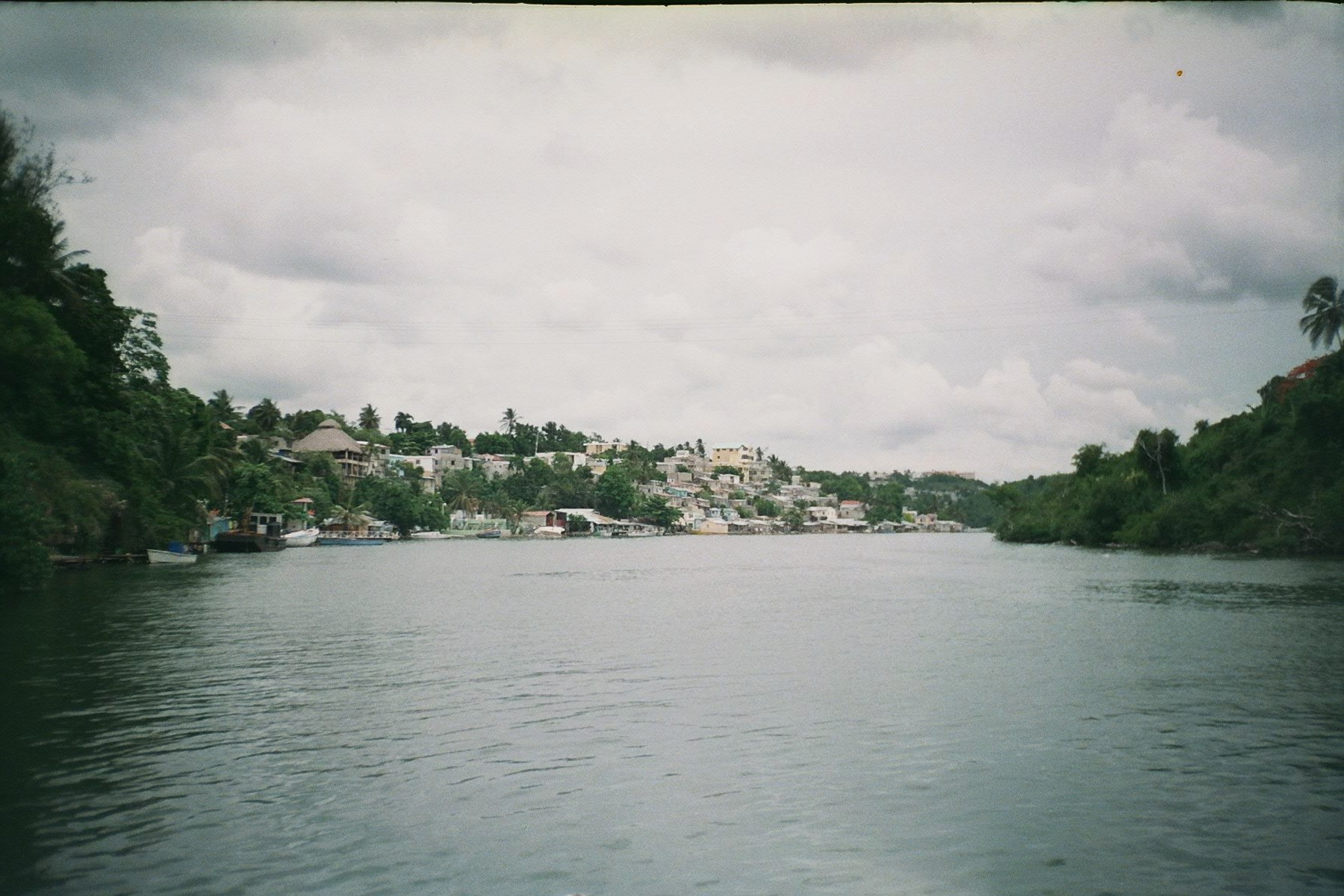 City of La Romana (Dominican Republic)